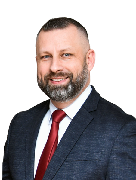 Minister of Communites and Returns, Dalibor Jevtić